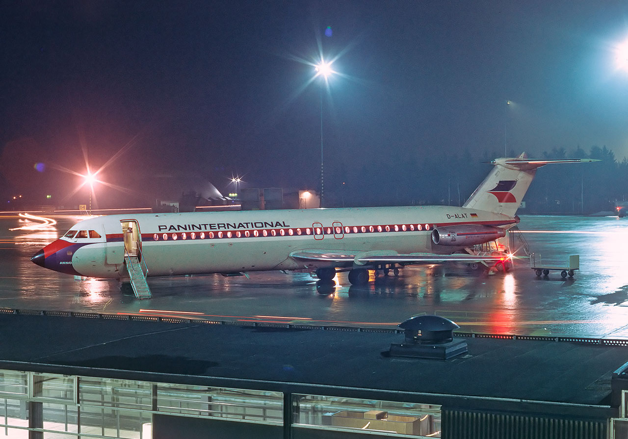 Paninternational BAC 111-515FB One-Eleven D-ALAT at Stockholm-Arlanda Airport